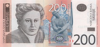 200 Serbian dinars (RSD) National Bank of Serbia (2006) issue]